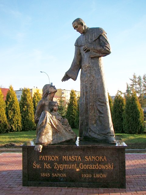 Statue of Saint Zygmunt Gorazdowski Unveiled, Sanok